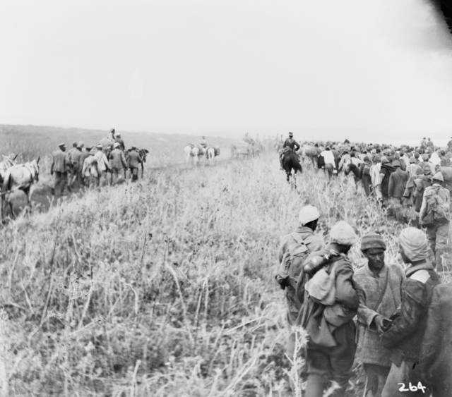 Photograph of Ottoman prisoners on their way from Jenin to Lejjun September 1918. Original caption: "Turkish prisoners captured during the advance on Damascus walking under guard through open country from Jenin to Lejjun (Megiddo). On the left are the horse and carts."